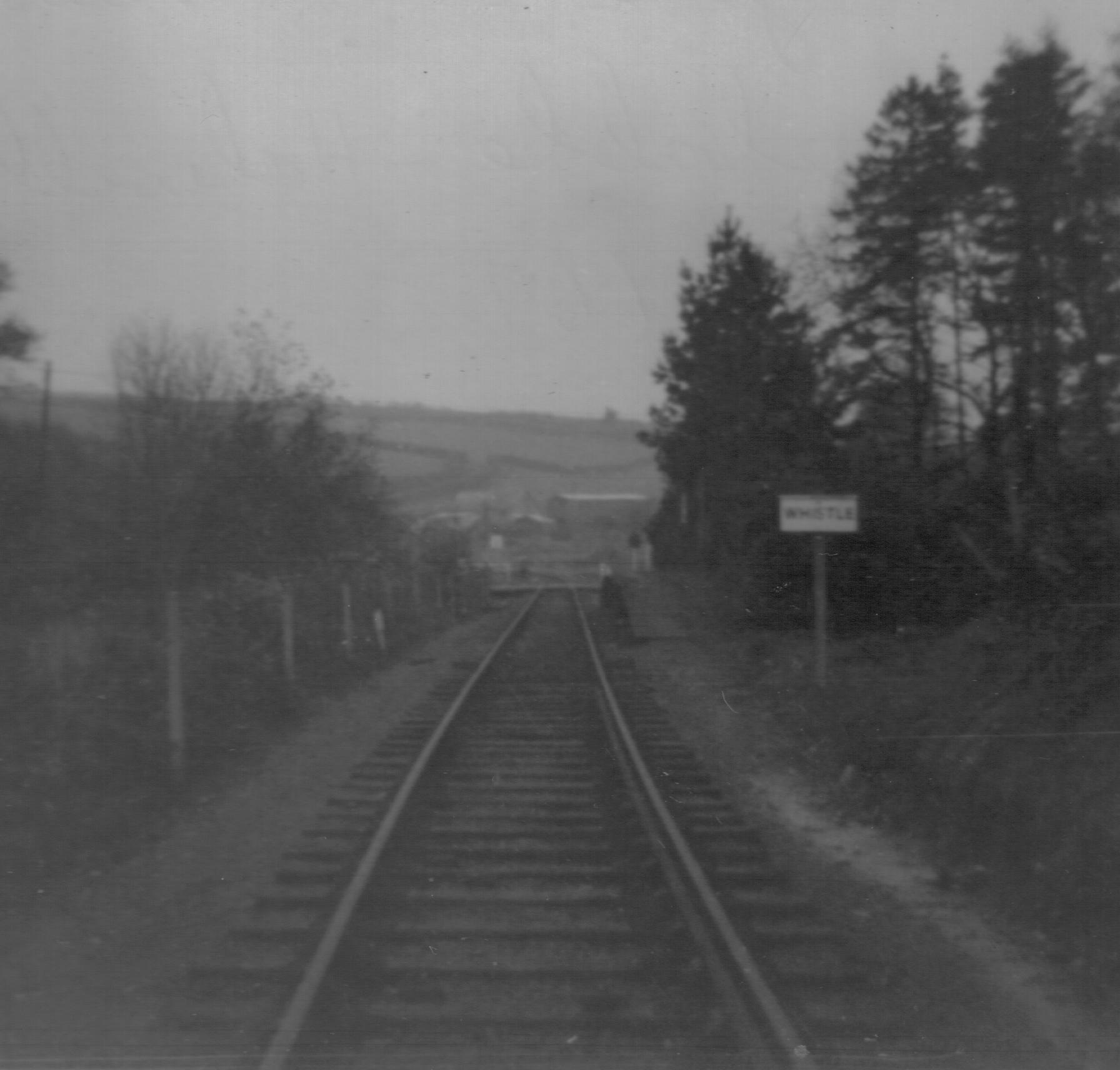 Watergate Halt, South Devon, 1969